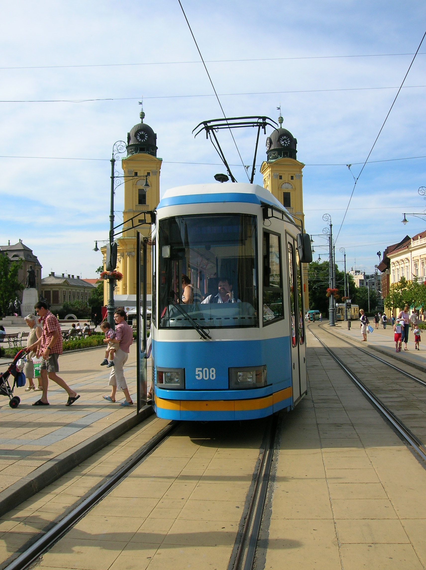 A tram in Debrecen, Hungary